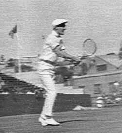 Australian tennis player John Bromwich. pre-1955 photo, so public domain